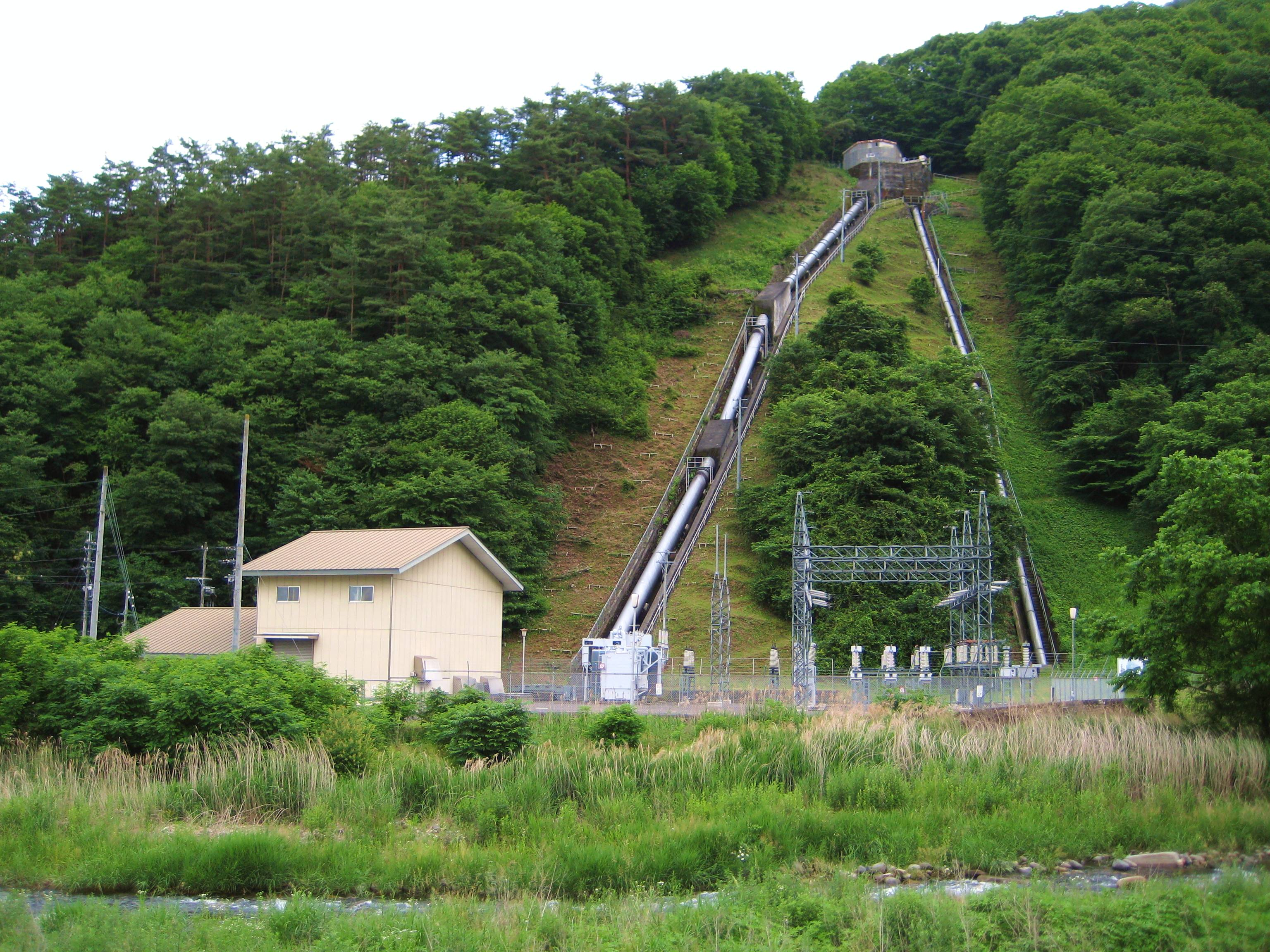 Aobara power station.